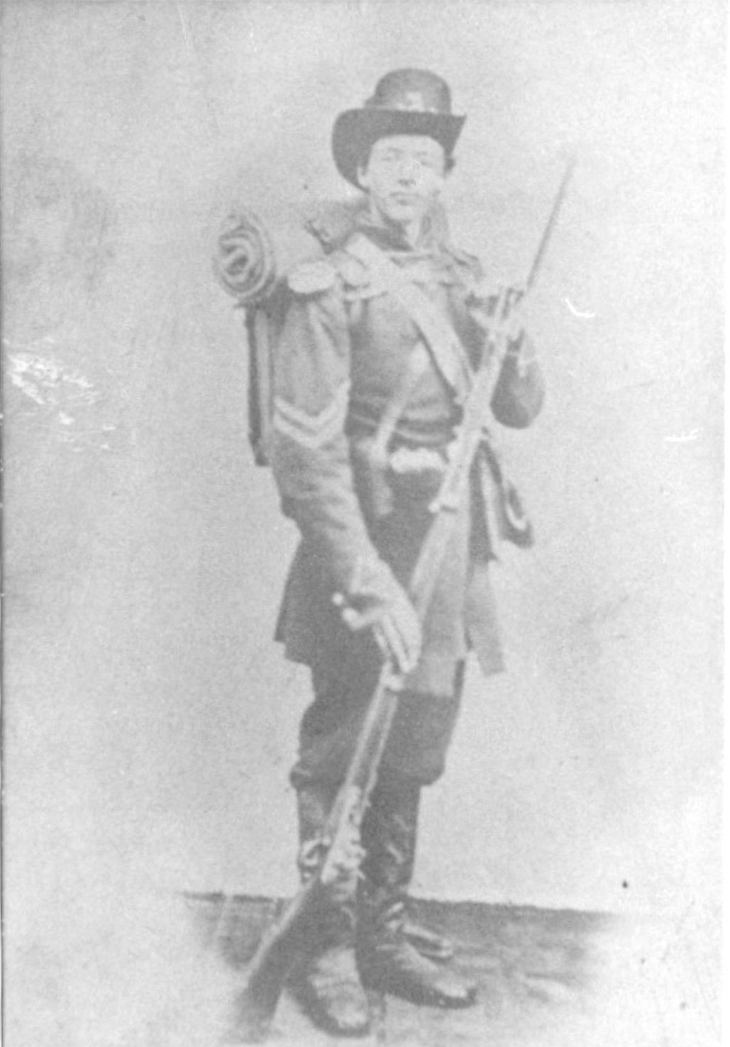 Corporal Thomas T. Caldwell